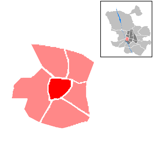 Locator maps of districts/ neighbourhoods in Madrid: Maps - ES - Madrid - Centro - Sol.PNG